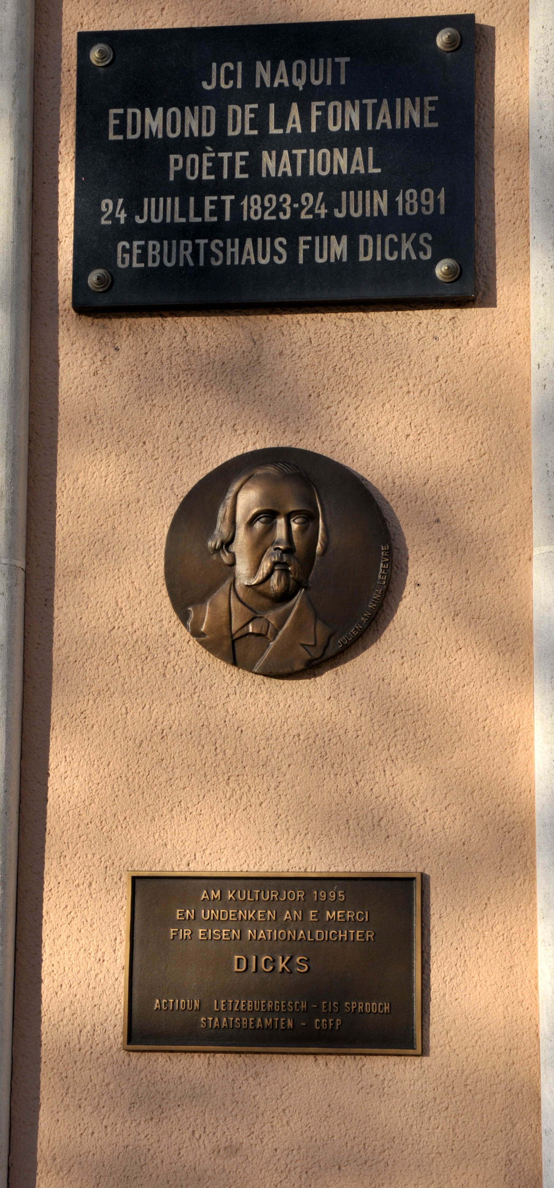 Luxembourg-City, Knuedler, on the house where Edmond de la Fontaine, alias Dicks was born